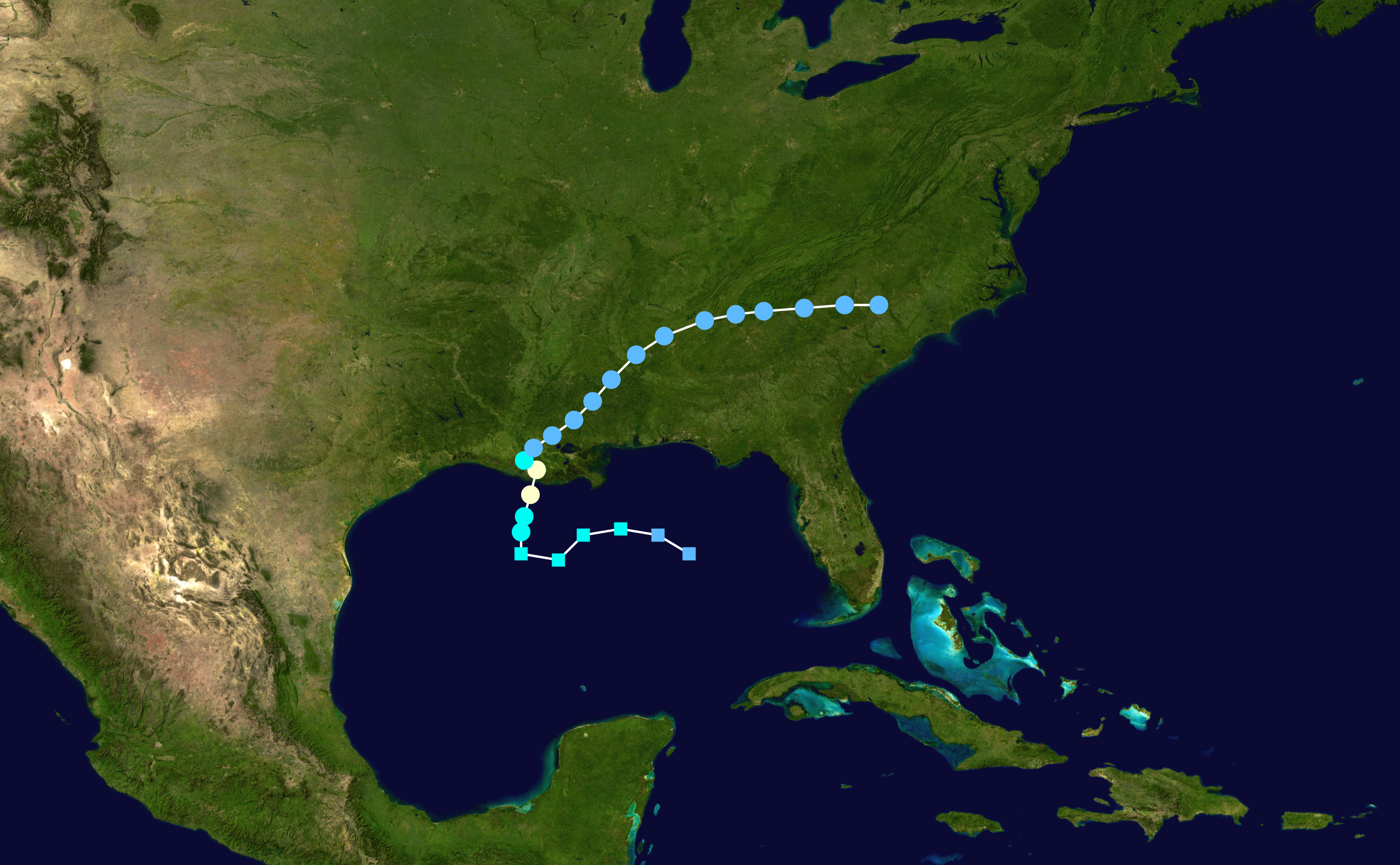 Hurricane Babe (1977) track. Uses the color scheme from the Saffir-Simpson Hurricane Scale.